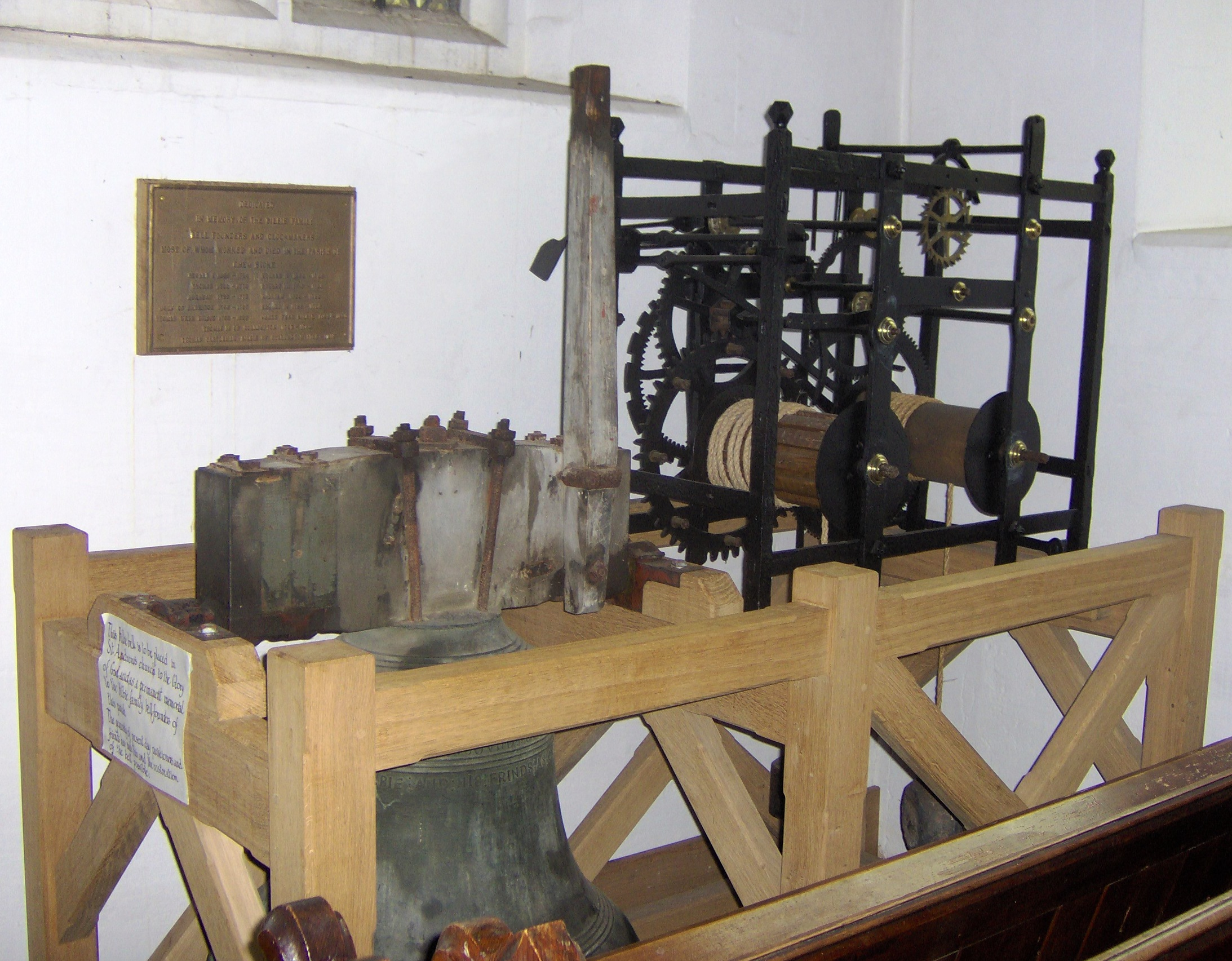 Bilbie Bell in Chew Stoke church. Taken by Rod Ward 13th July 2007